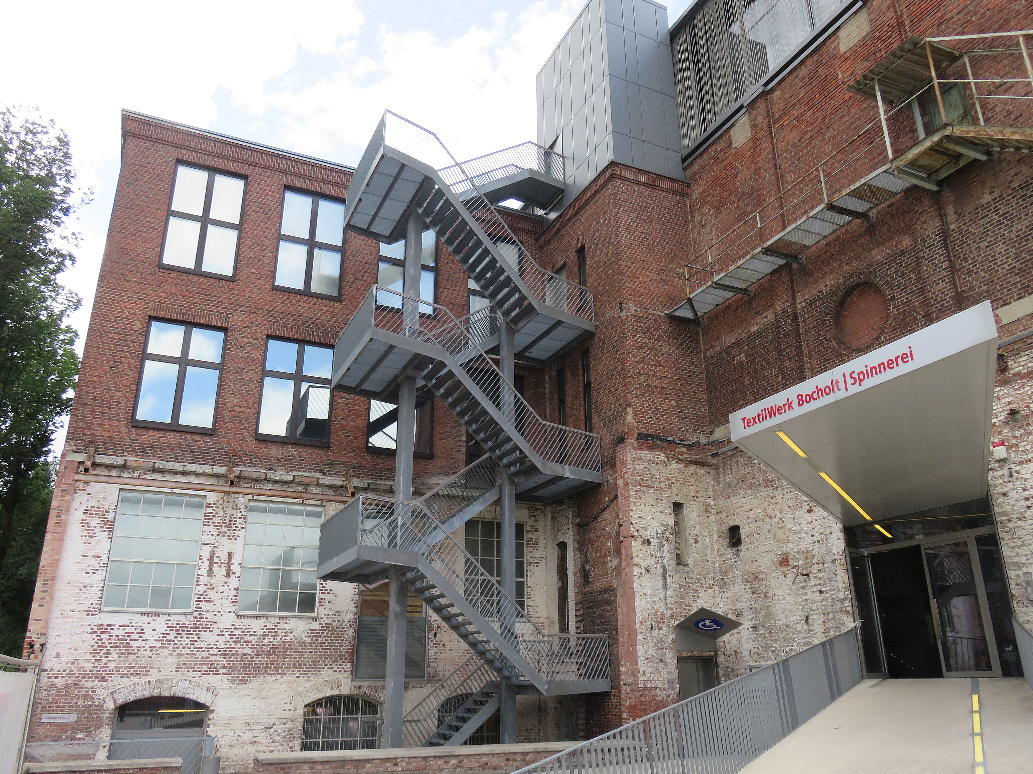 Entrance of Textilmuseum in Bocholt (DE), Spinnerei